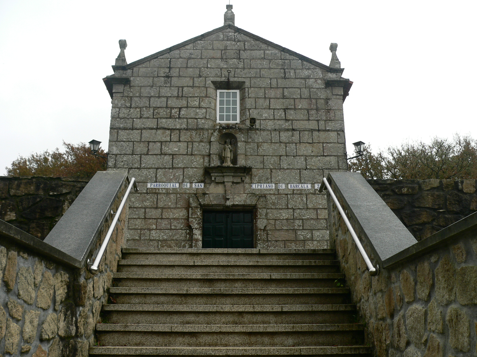 San Cibrán de Barcala Parish Church in the municipality of A Baña, A Coruña Province, Galicia, Spain.